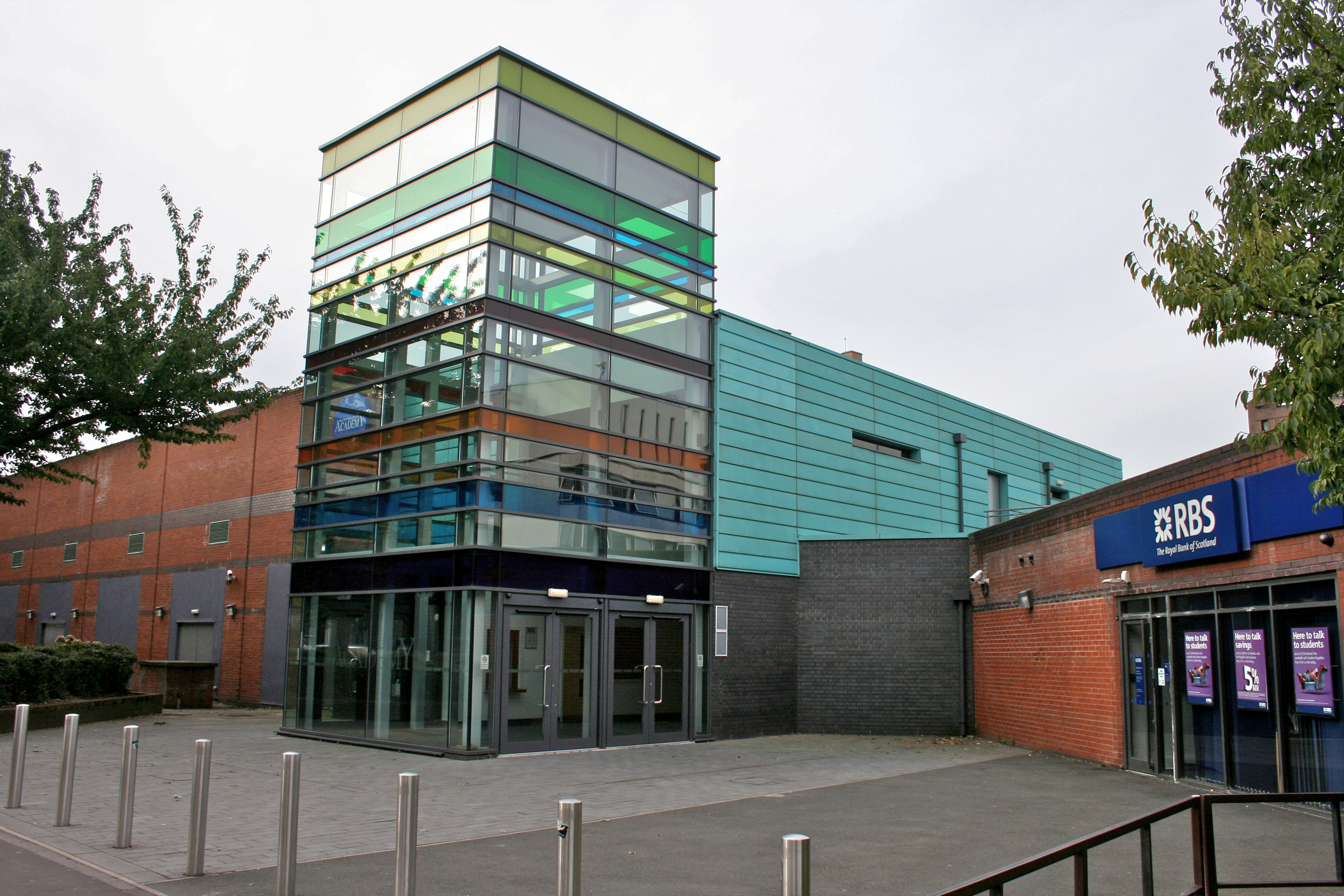 The front entrance to Manchester Academy